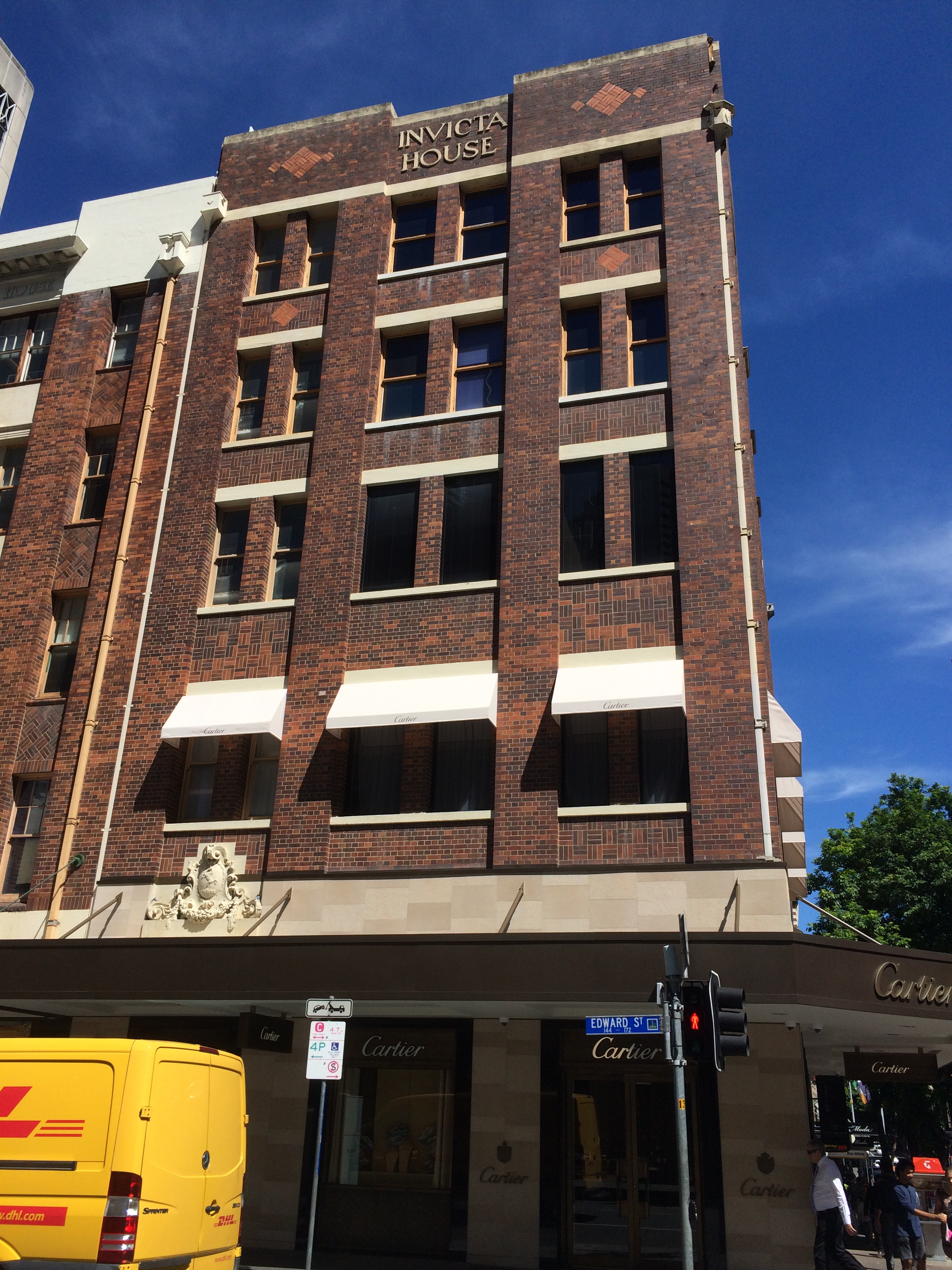 Invicta House, 2015